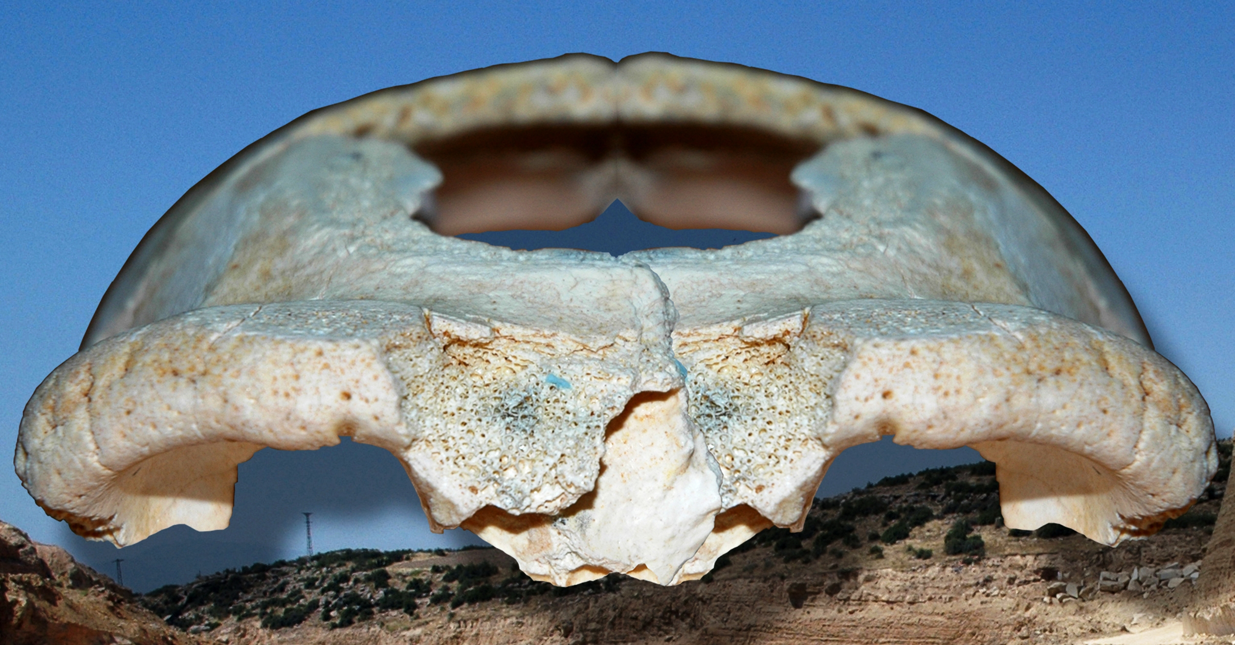 Photo of Homo Erectus (Kocabas) fossil finding from Denizli, Turkey